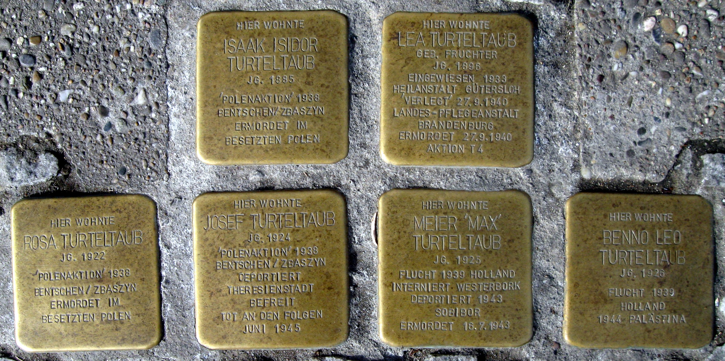 Stolpersteine in Dortmund, Heiligegartenstr. 6-8